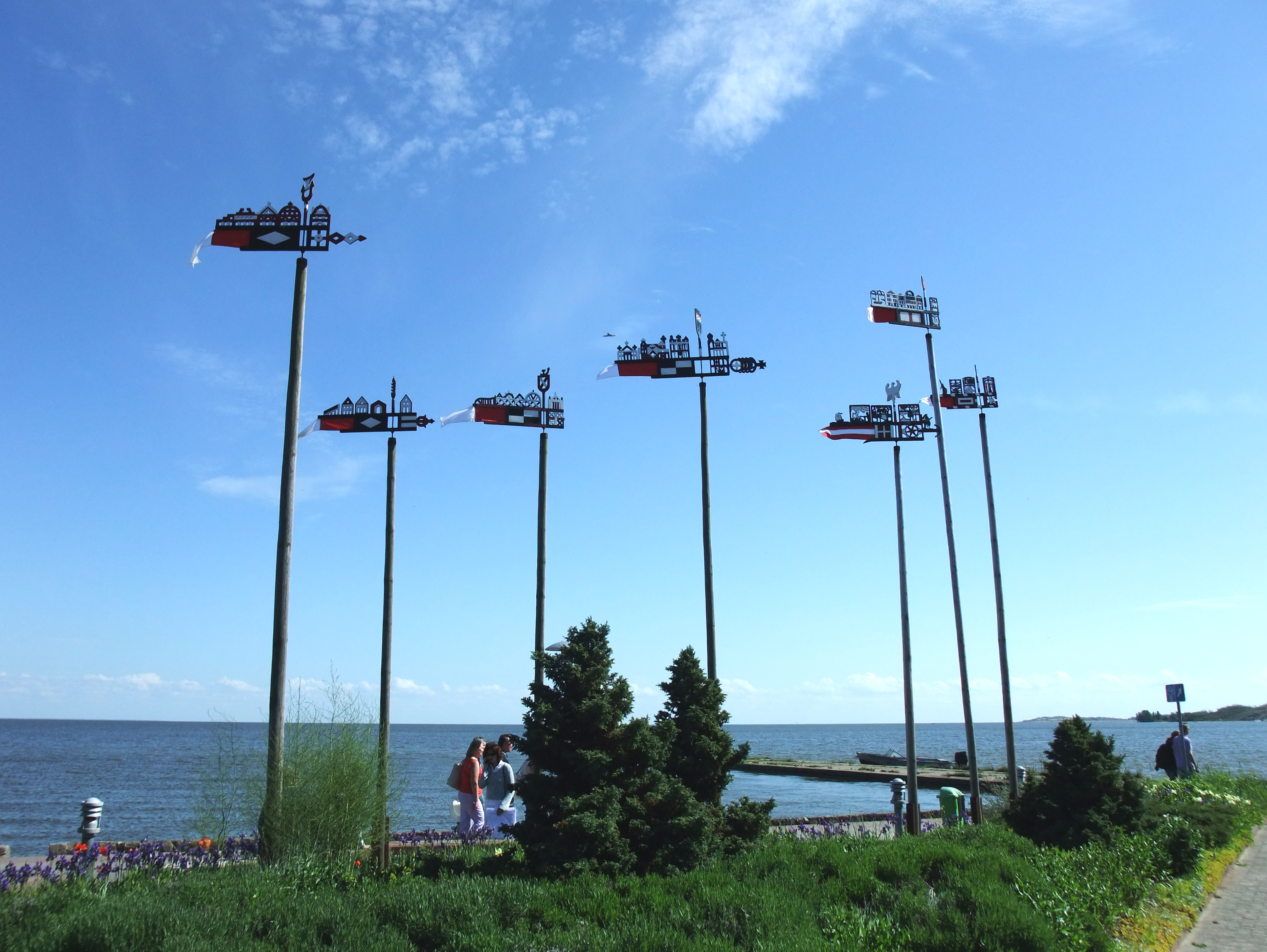 Weather vanes in Nida, Lithuania